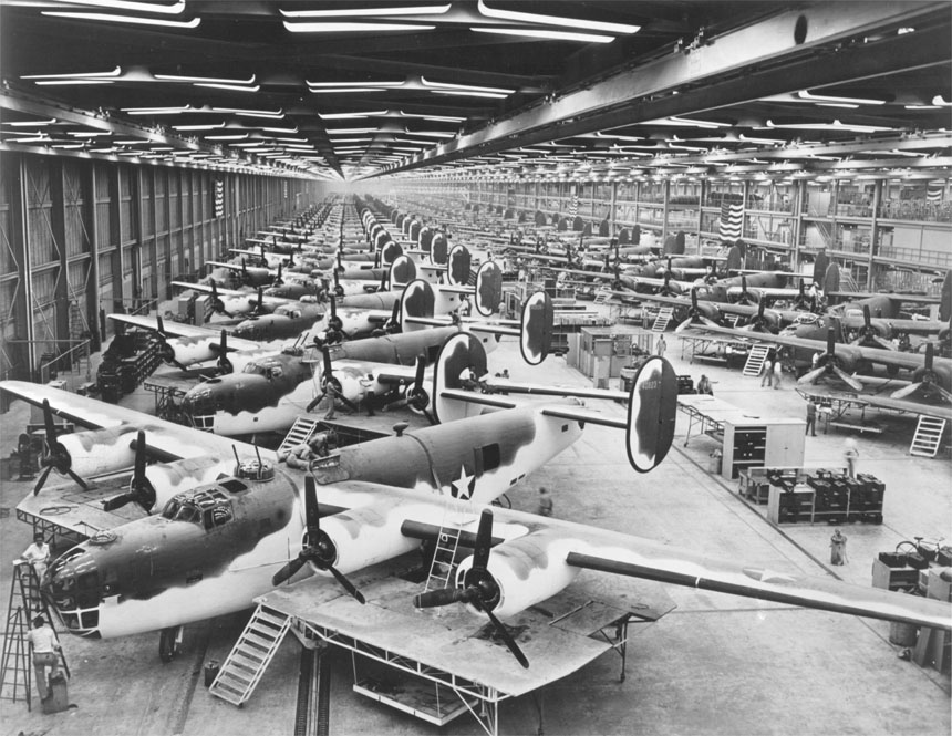 B-24s in Consolidated-Vultee Plant, Fort Worth, Texas. Part of the world's largest double aircraft assembly line in Consolidated-Vultee's Fort Worth plant. In foreground are "Liberator" bombers modified for special American uses. To the rear of this front line are C-87 "Liberator Express Transports" in various assembly stages. The second line is composed entirely of B-24 "Liberator" bombers in final assembly stages.